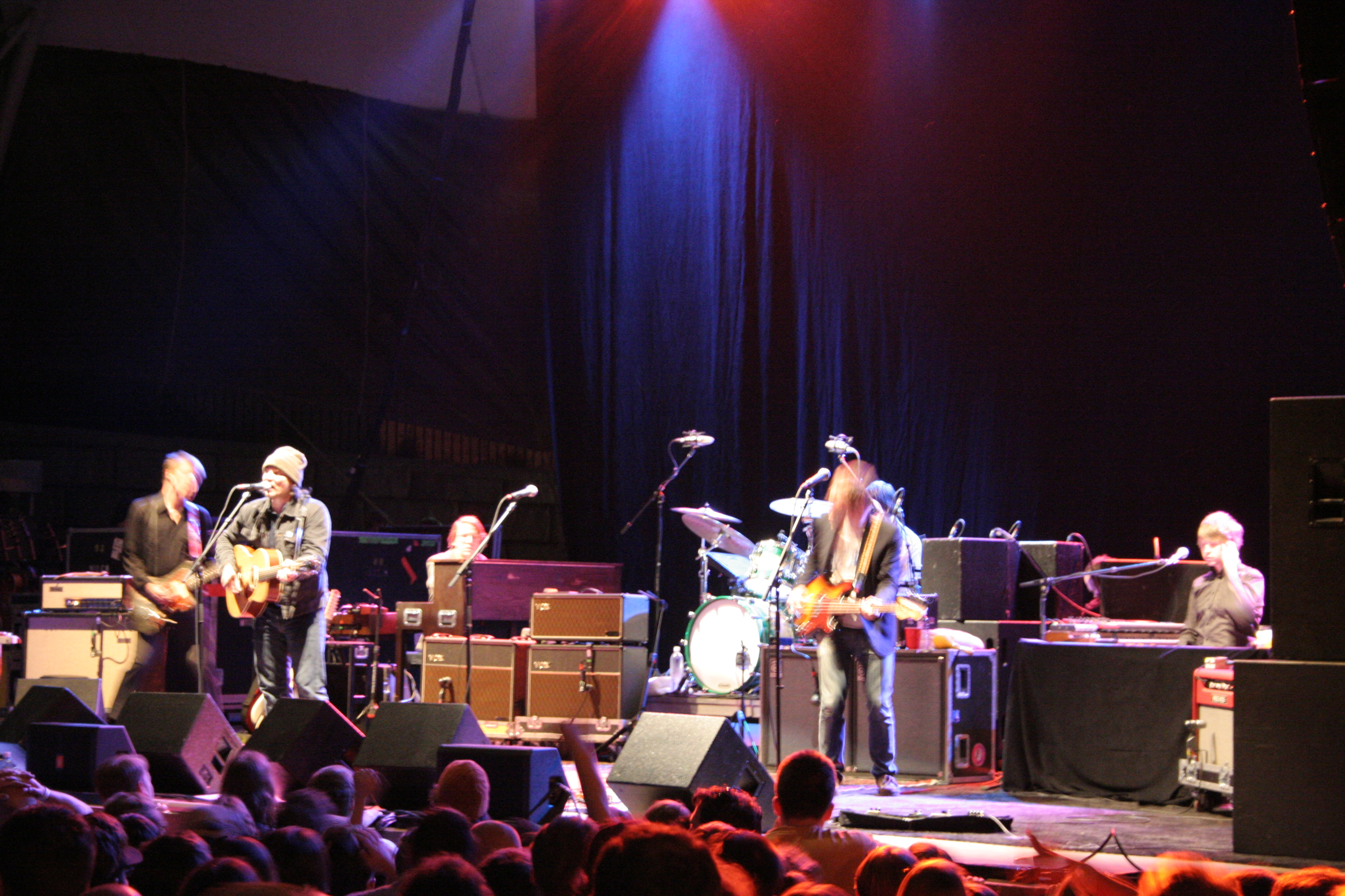 the alt.country band Wilco, playing at the Charlottesville Pavillion, Charlottesville, VA, USA